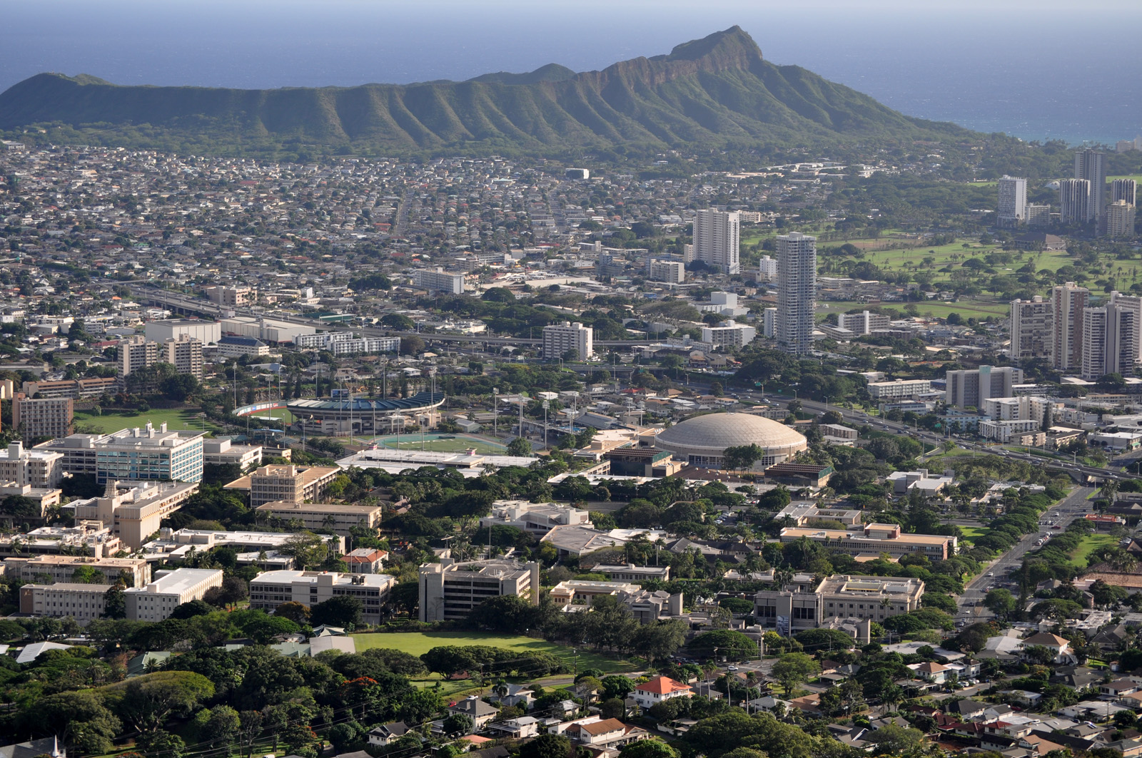 A zoom-in look at University of Hawaii campus in the foreground, with Diamond Head in the distance. My vantage point is the Tantalus, located in the hills just above Honolulu. The views are second to none, but the winds are quite fierce too.